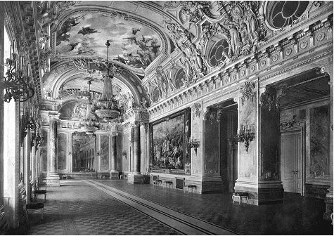 Grand Dining Room in the Royal Castle of Budapest.